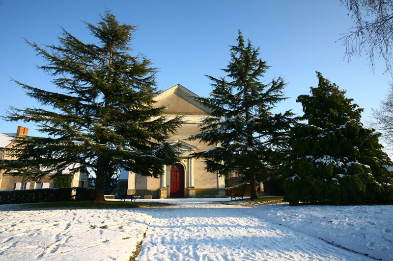 church of Brain sur l'Authion